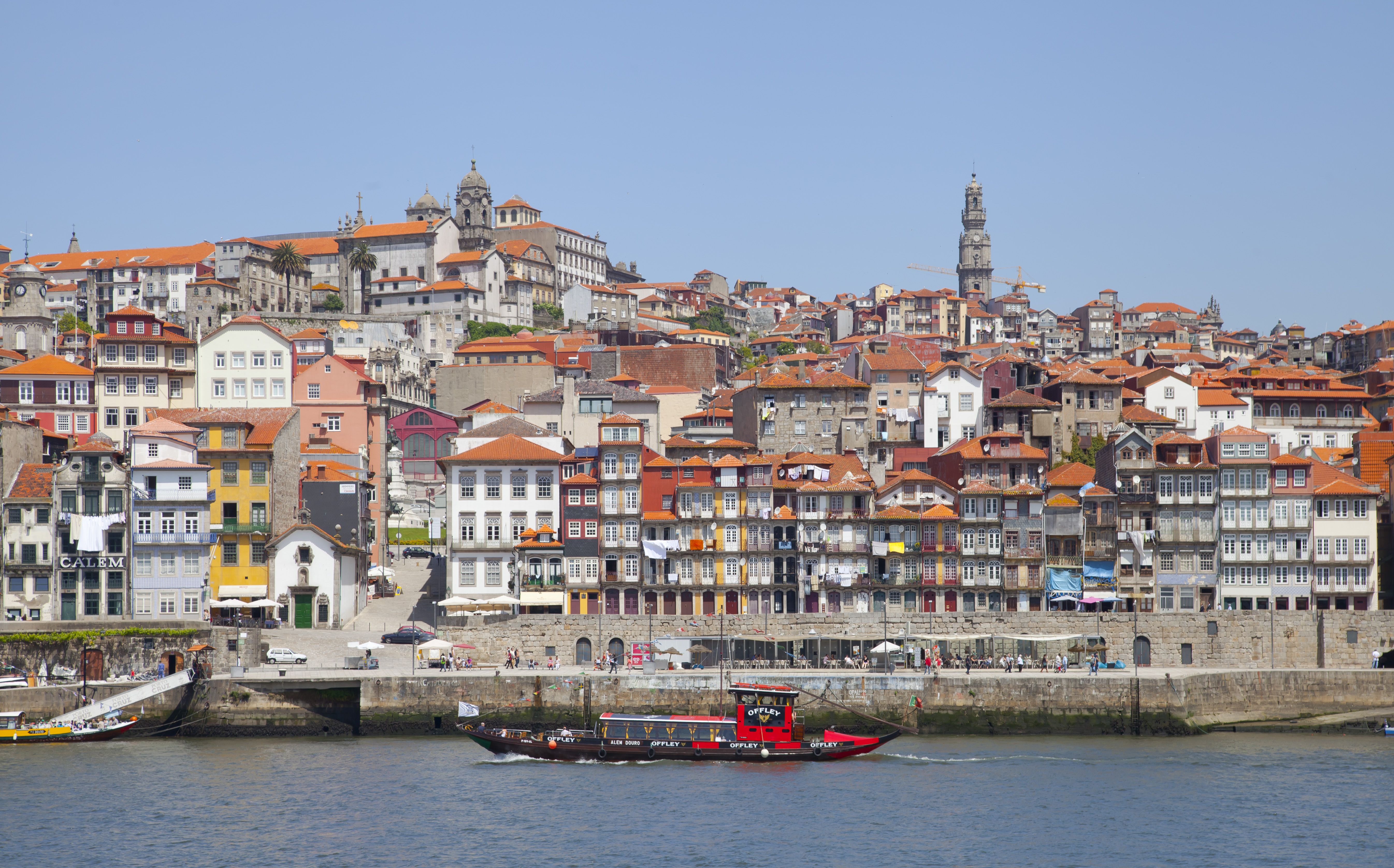 Cais da Ribeira, Porto, Portugal